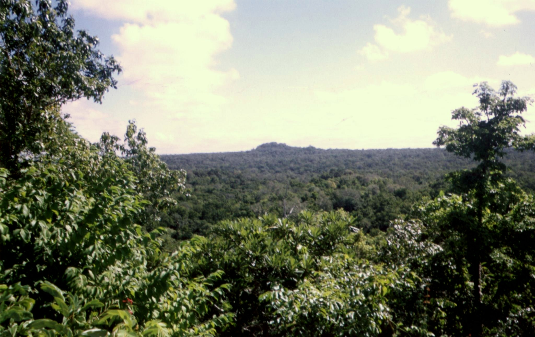 View from the triadic pyramid at El Tintal, in the Petén department of Guatemala, looking north across virgin rainforest to the distant pyramids of a neighbouring site.